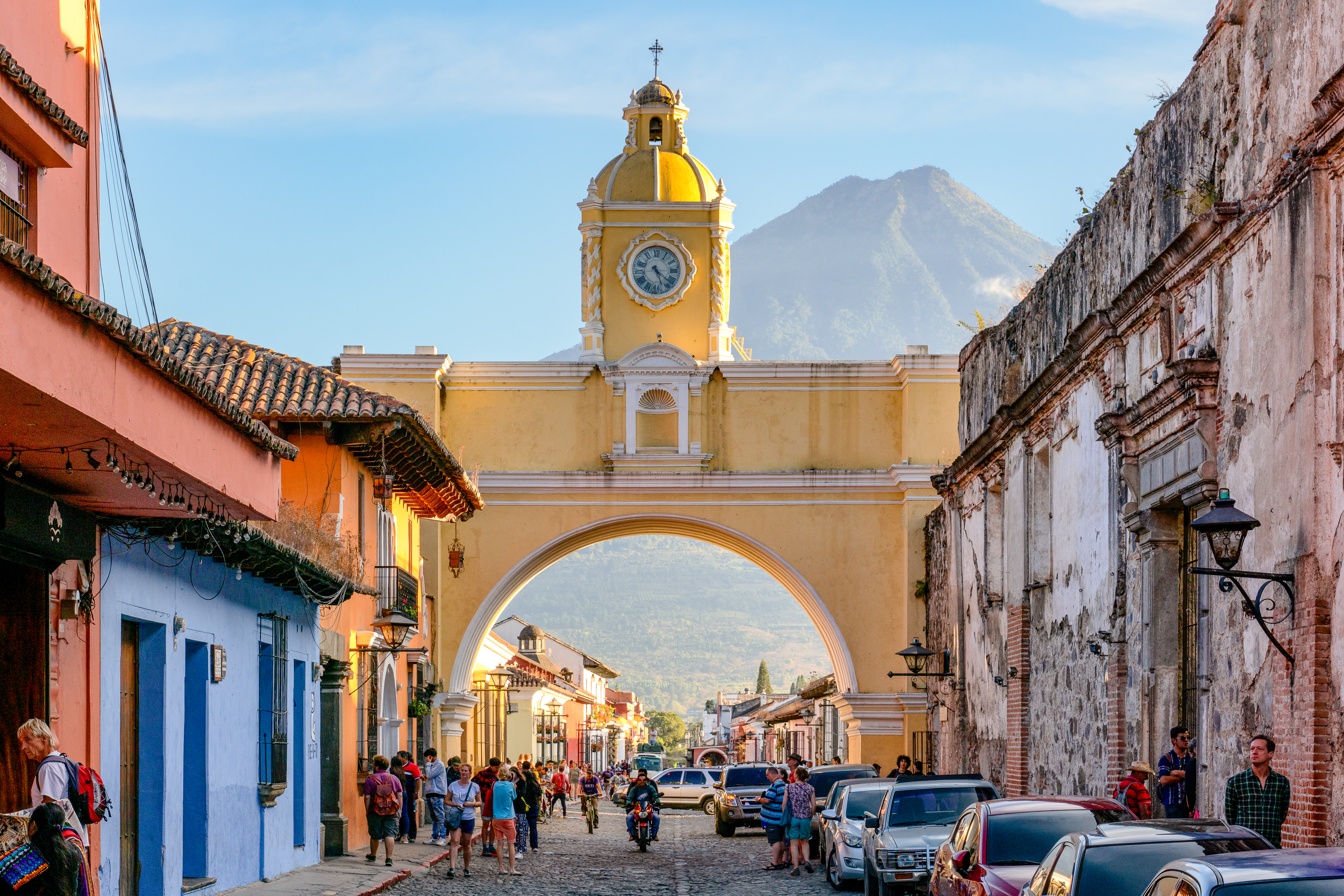 The Santa Catalina Arch is one of the distinguishable landmarks in Antigua Guatemala, Guatemala, located on 5th Avenue North. Built in the 17th century, it originally connected the Santa Catalina convent to a school, allowing the cloistered nuns to pass from one building to the other without going out on the street. A clock on top was added in the era of the Central American Federation, in the 1830s. Source: In the background is Volcán de Agua (also known as Hunahpú by Maya) is a stratovolcano located in the departments of Sacatepéquez and Escuintla in Guatemala. At 3,760 m (12,340 ft), Agua Volcano towers more than 3,500 m (11,500 ft) above the Pacific coastal plain to the south and 2,000 m (6,600 ft) above the Guatemalan Highlands to the north. It dominates the local landscape except when hidden by cloud cover. The volcano is within 5 to 10 km (3.1 to 6.2 mi) of the city of Antigua Guatemala and several other large towns situated on its northern apron. These towns have a combined population of nearly 100,000. It is within about 20 km of Escuintla (population, ca. 150,000) to the south. Source